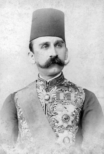 Photograph of Hussein Kamel (1853-1917), Sultan of Egypt.